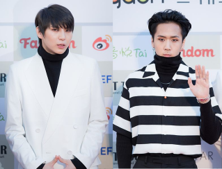 VIXX LR at Gaon Chart K-pop Awards red carpet, on February 17, 2016.